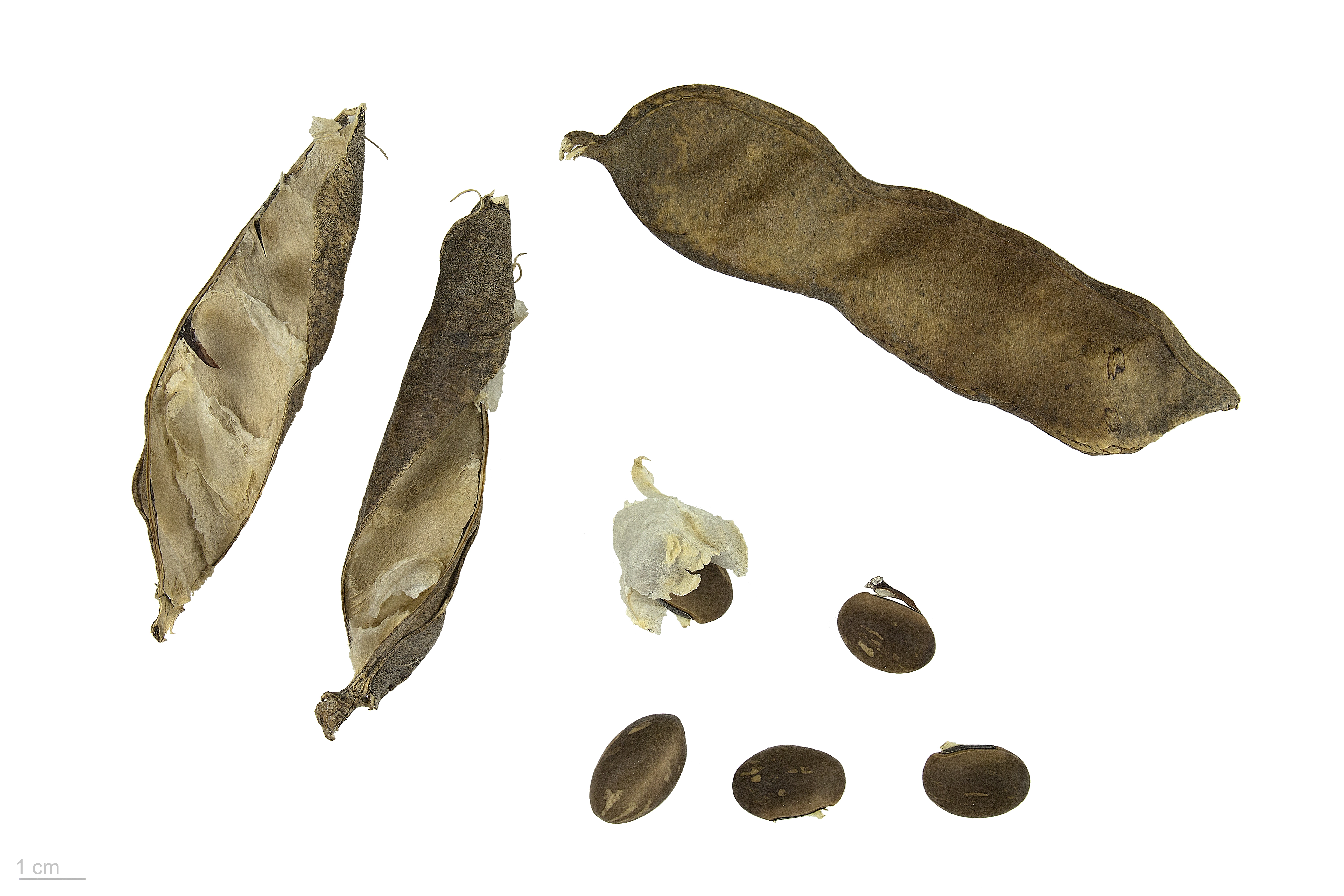 Canavalia rosea, beach bean, seeds